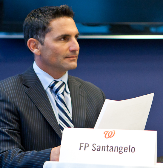 Washington Nationals broadcaster FP Santangelo This file has been extracted from another file: F. P. Santangelo and Bob Carpenter.jpg